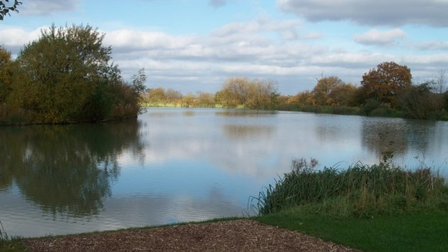 Lemington Lakes One of the Lemington Lakes, a commercial coarse fishing enterprize, seen from the footpath.